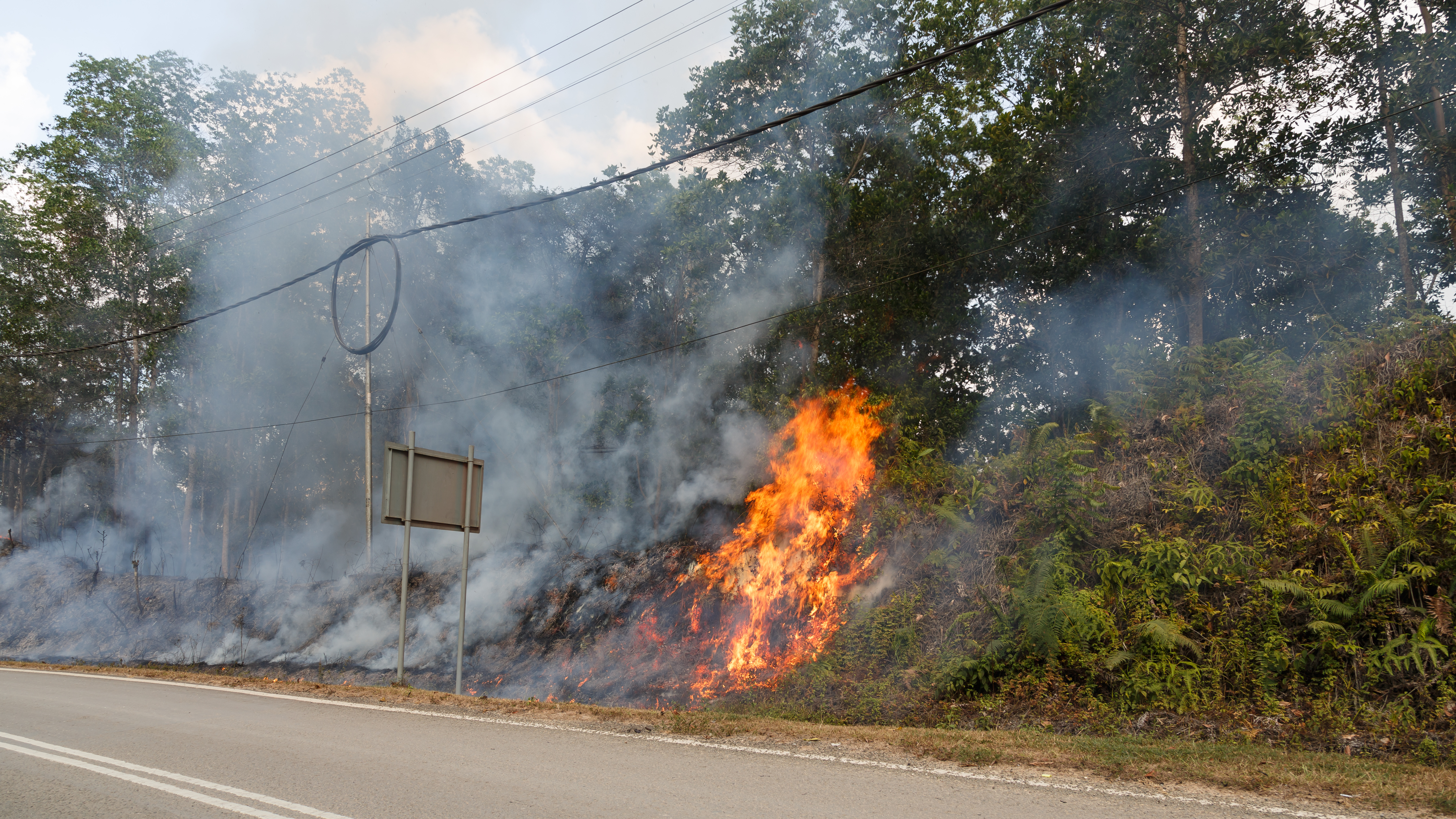 Tambunan District, Sabah: A bushfire in Tambunan District. This kind of fires contribute a lot to haze in the country.